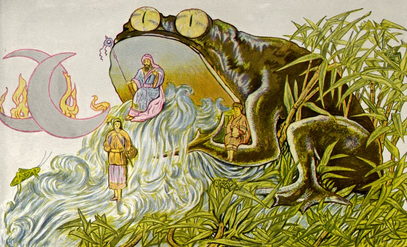 Float design lithograph, Comus Mardi Gras Parade, New Orleans, 1912